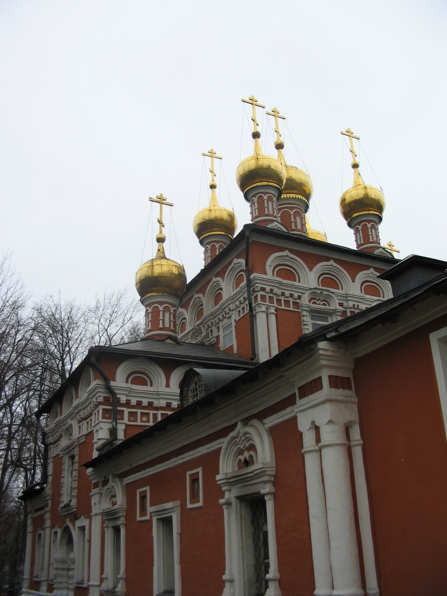 Church of the Nativity in Izmaylovo. View from the northern façade.